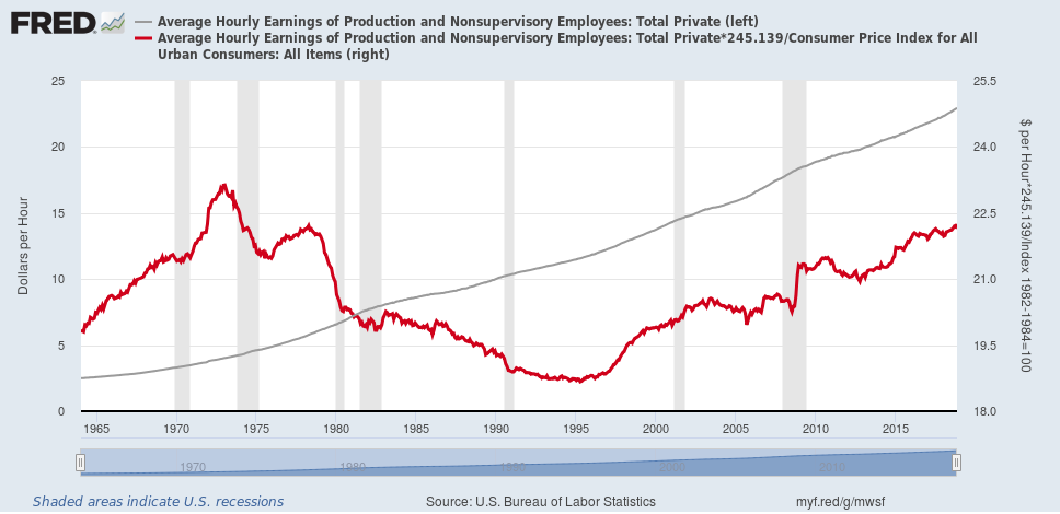 United States real wages (red, in constant 2017 dollars) for production/nonsupervisory workers, vs. nominal dollars (grey)